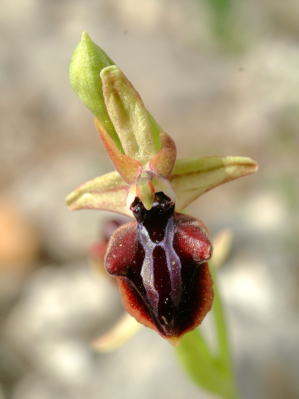 Ophrys mammosa - flower